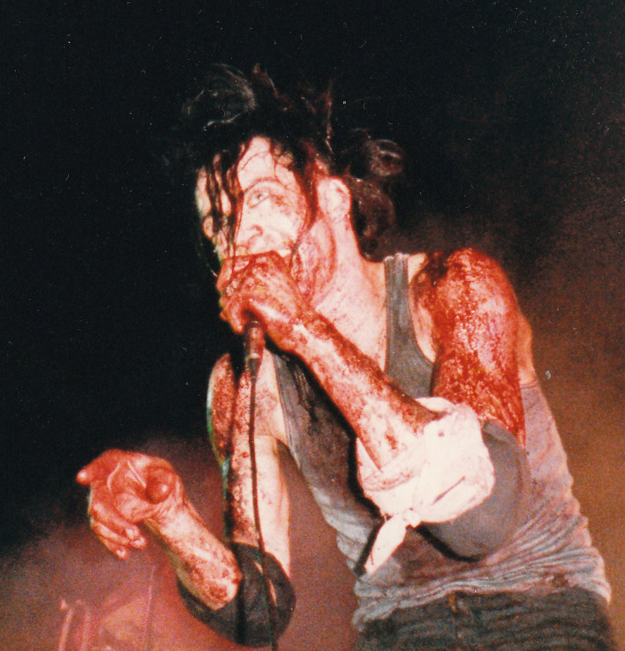 I was right up front. Amazing show.